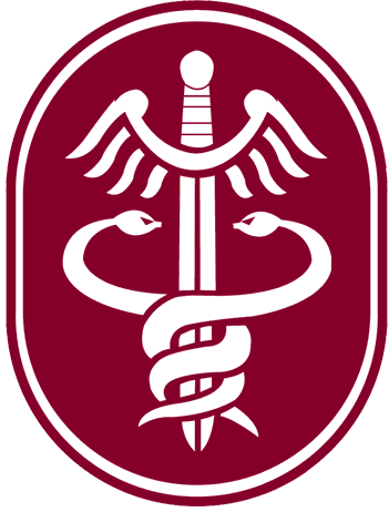 U.S. Army Medical Command Patch